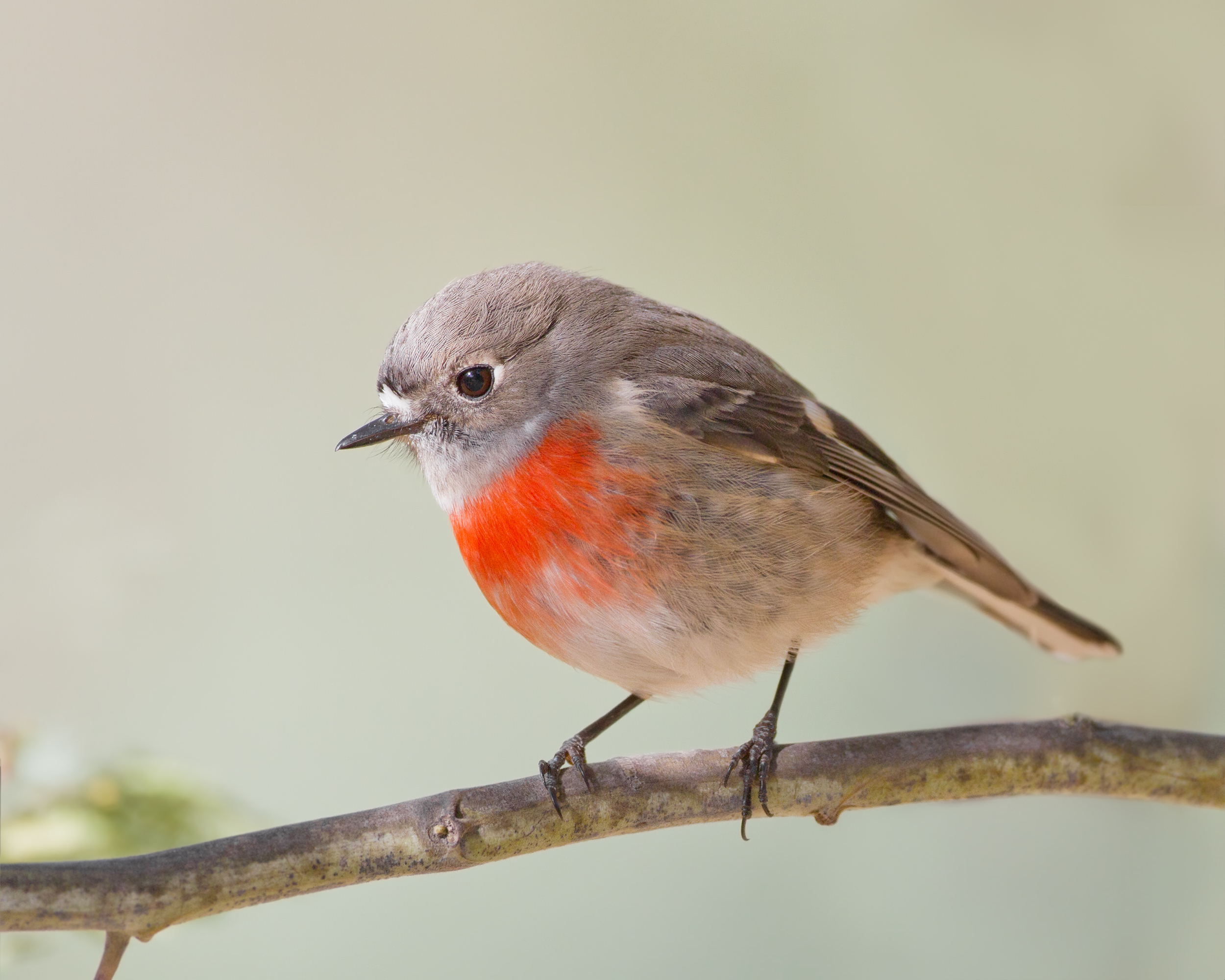 Scarlet Robin (Petroica boodang) female, Knocklofty Reserve, Hobart, Tasmania